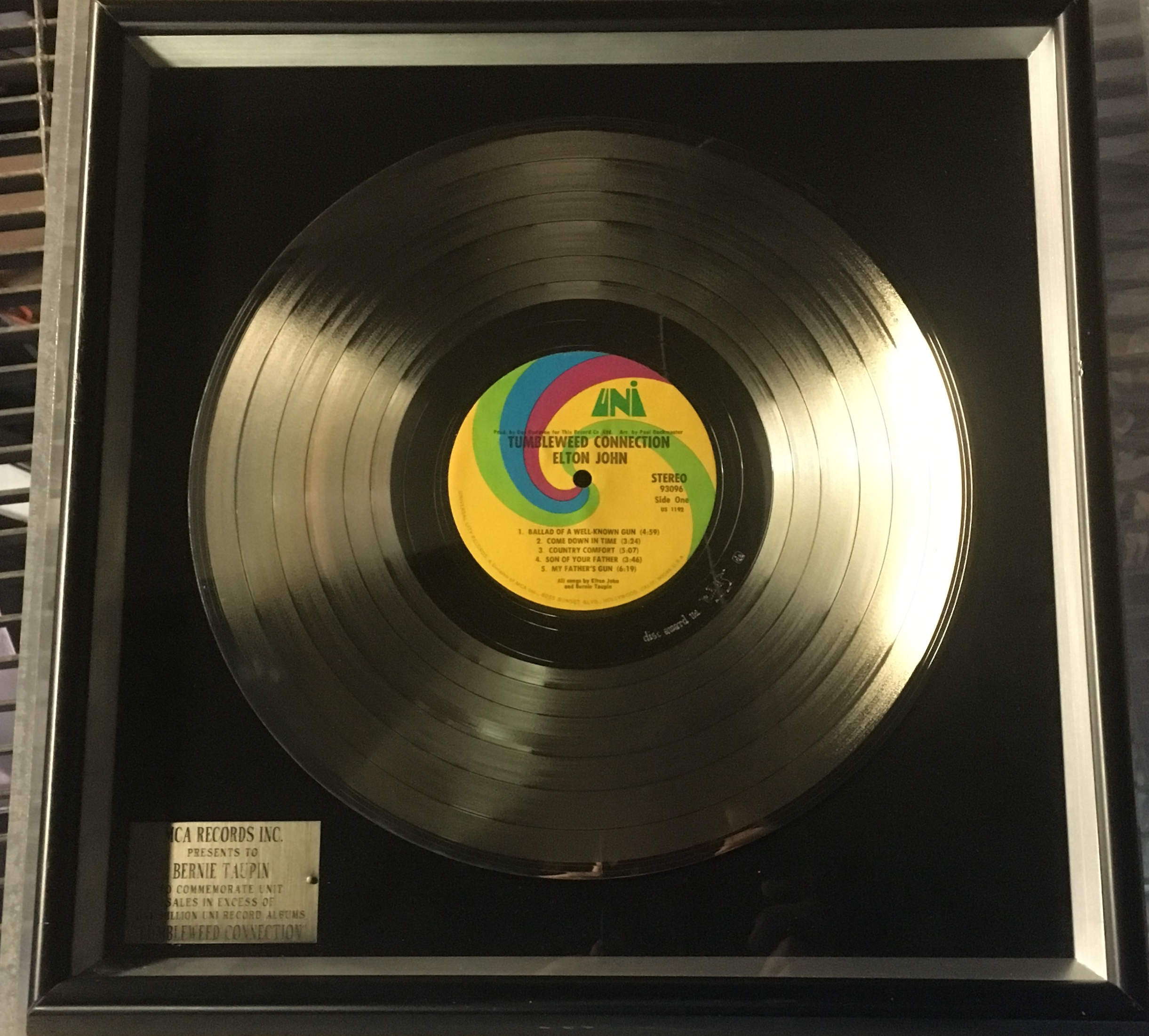 MCA Records Inc. Presents to Bernie Taupin to Commemorate Unit Sales in Excess of One Million UNI Record Albums, "Tumbleweed Connection"